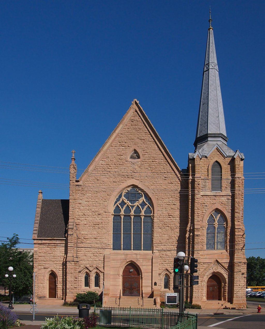 First Baptist Church of Saint Paul, St Paul, Minnesota, USA. Viewed from the southeast atop a stepladder, corrected for tilt distortion.